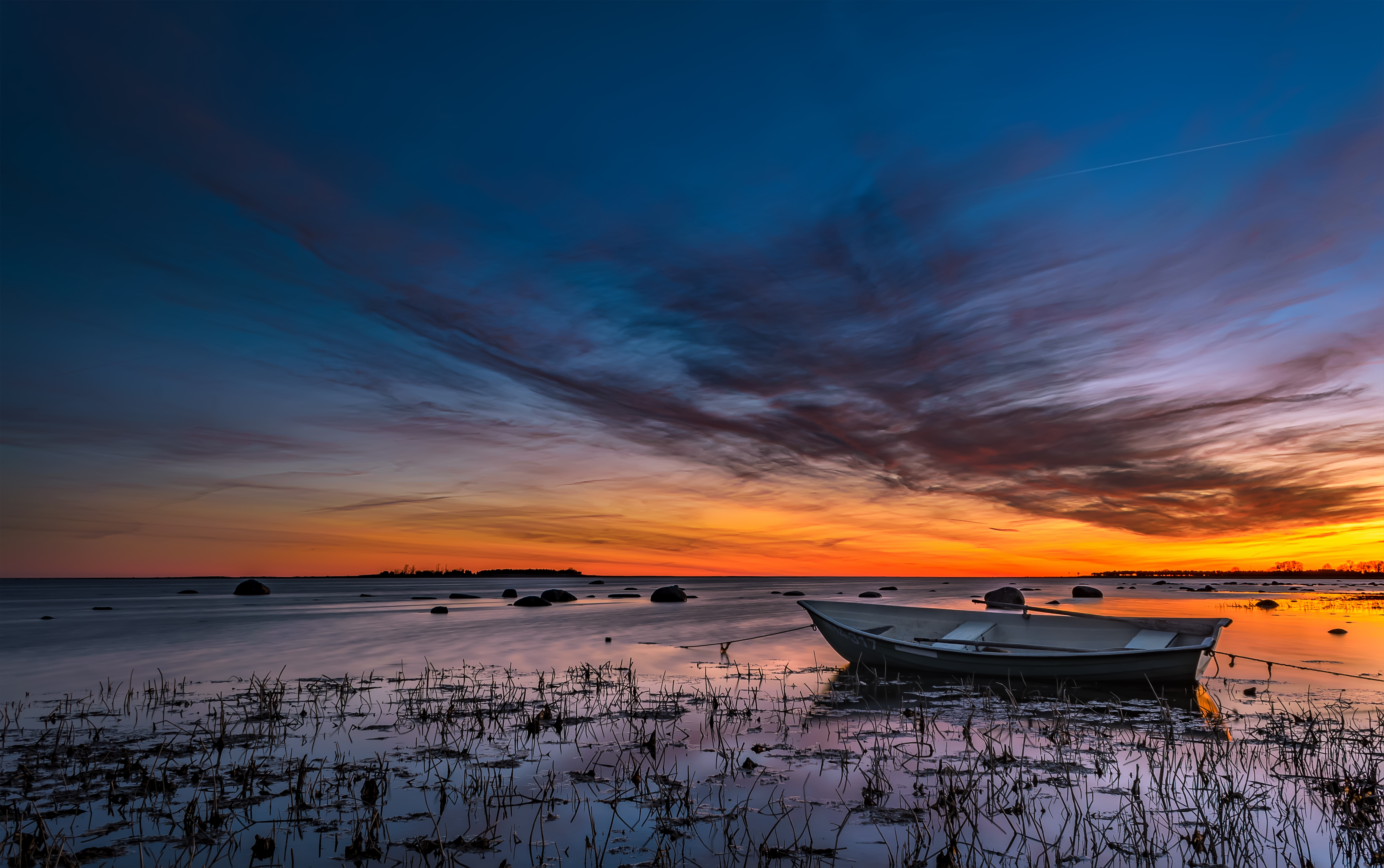 Sunset